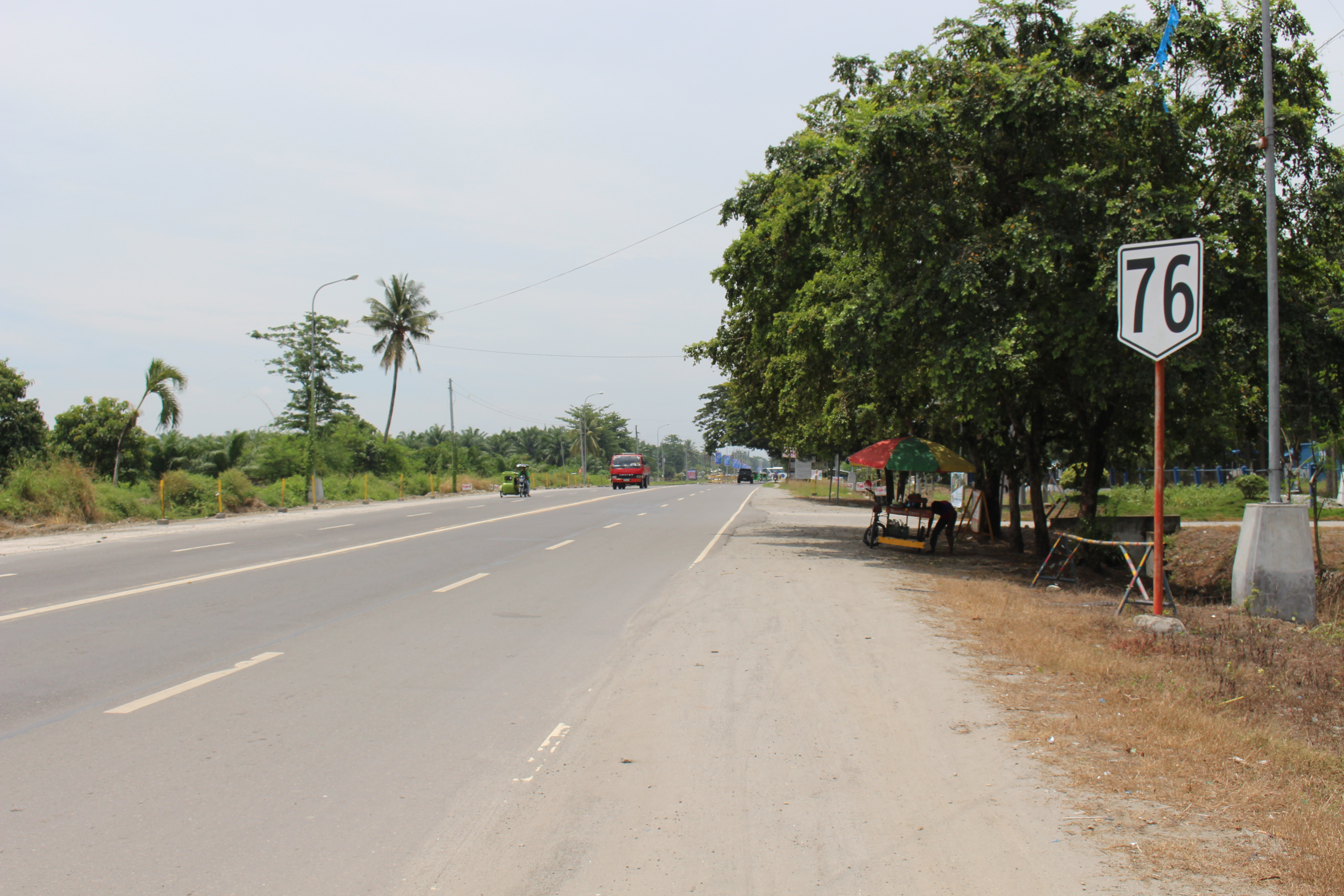 National Route 76 Reassurance Marker located at Isulan, Sultan Kudarat.